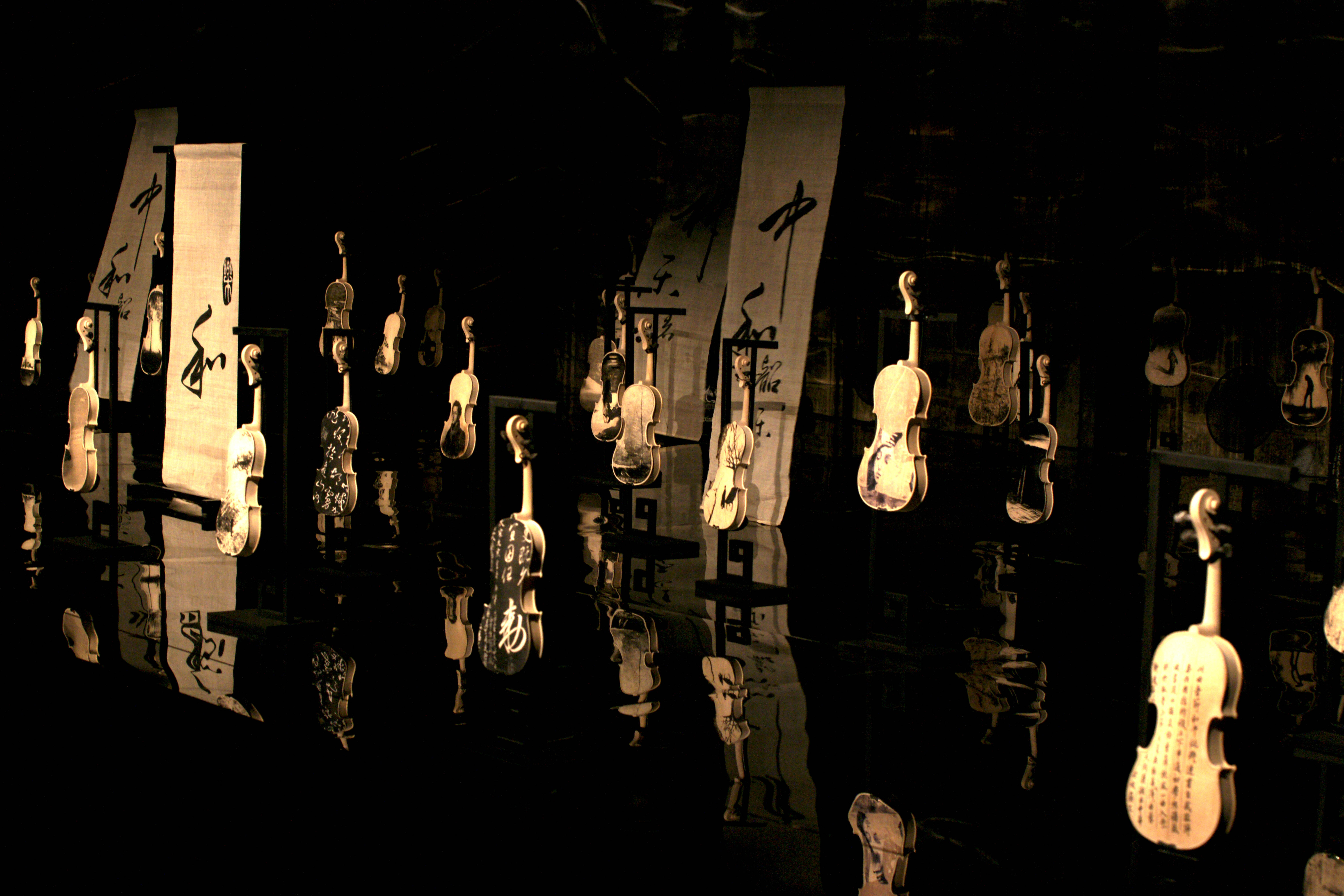 li Chevalier's Installation created at the National Centre For the Performing Arts